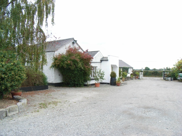 Dunderry Lodge Restaurant, Dunderry, Co. Meath. Quite a renowned Meath restaurant, but difficult to find (it's down a cul-de-sac to the west of the village).